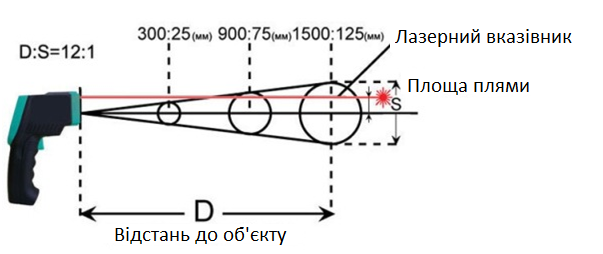 Схема роботи пірометра